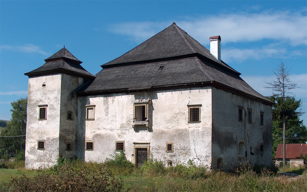 Necpaly - renaissance manor house of the family Justh 17th century